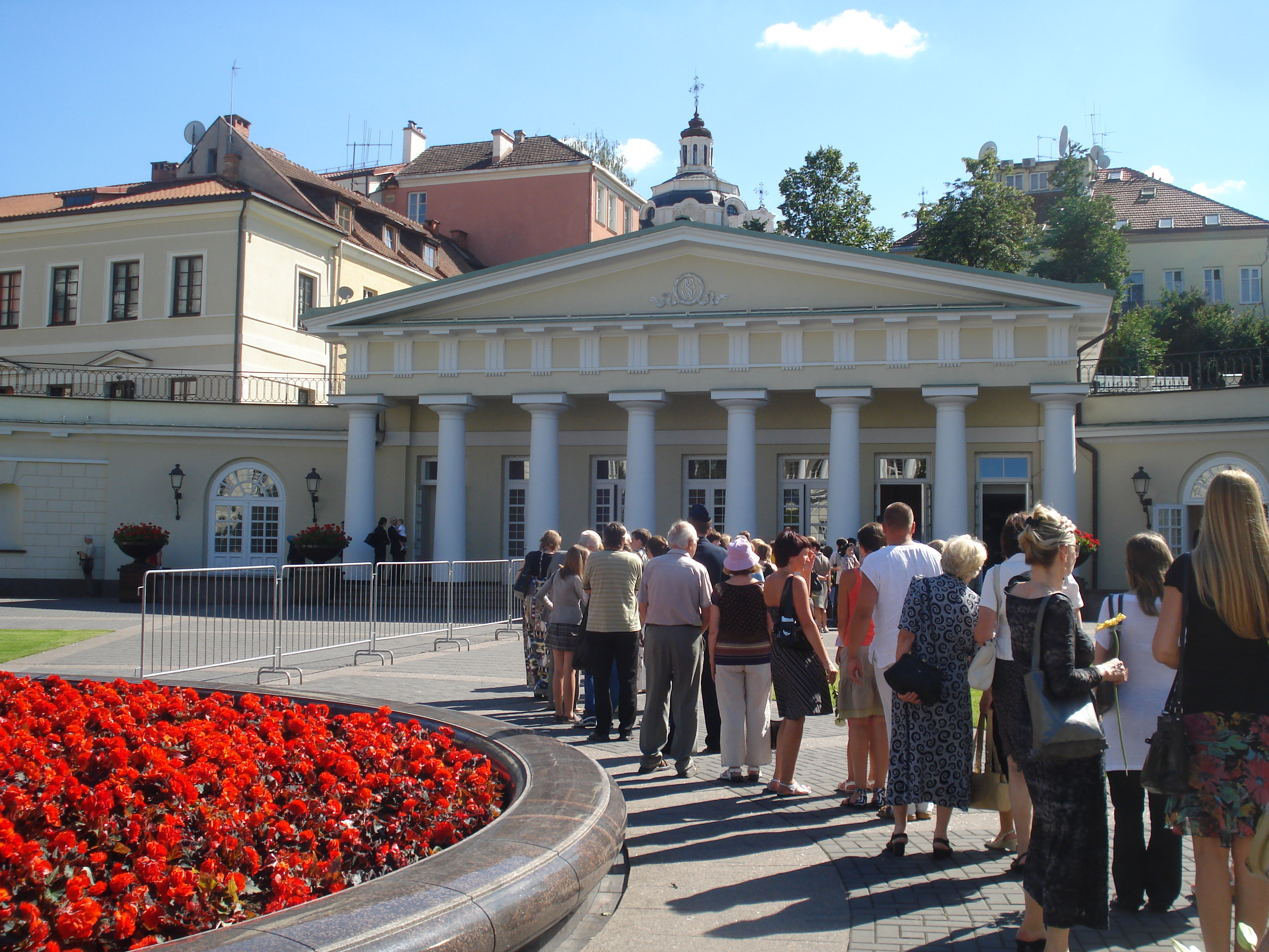 Mourners queue to pay their last respects to the former Lithuanian President Algirdas Brazauskas in the President palace in Vilnius, Lithuania